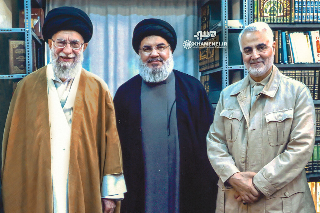 Supreme leader Ayatollah Ali Khamenei (left), Hezbollah Secretary General Hassan Nasrallah (center), and Qods Force commander Qassem Soleimani (right). This photo is believed to have been taken in Tehran; see detailed commentary here.